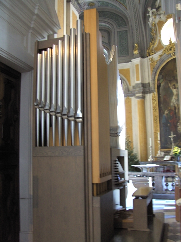 choir organ of dresden cathedral